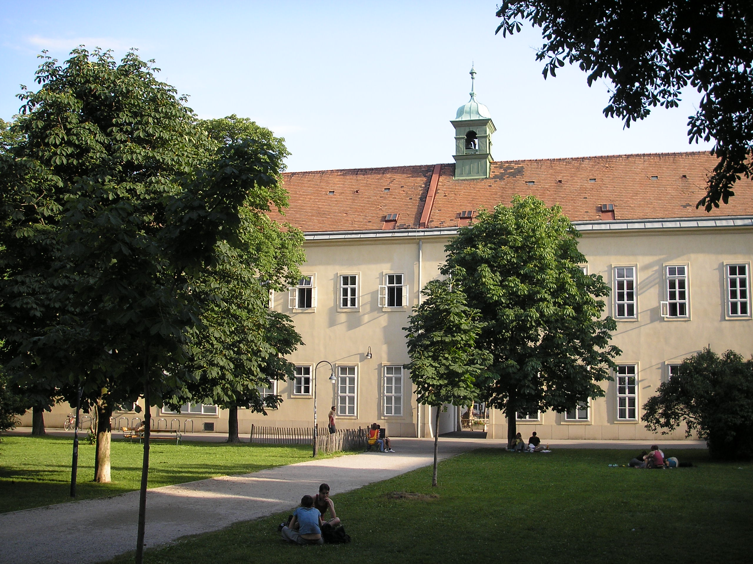 Campus of the University of Vienna, one of the courtyards